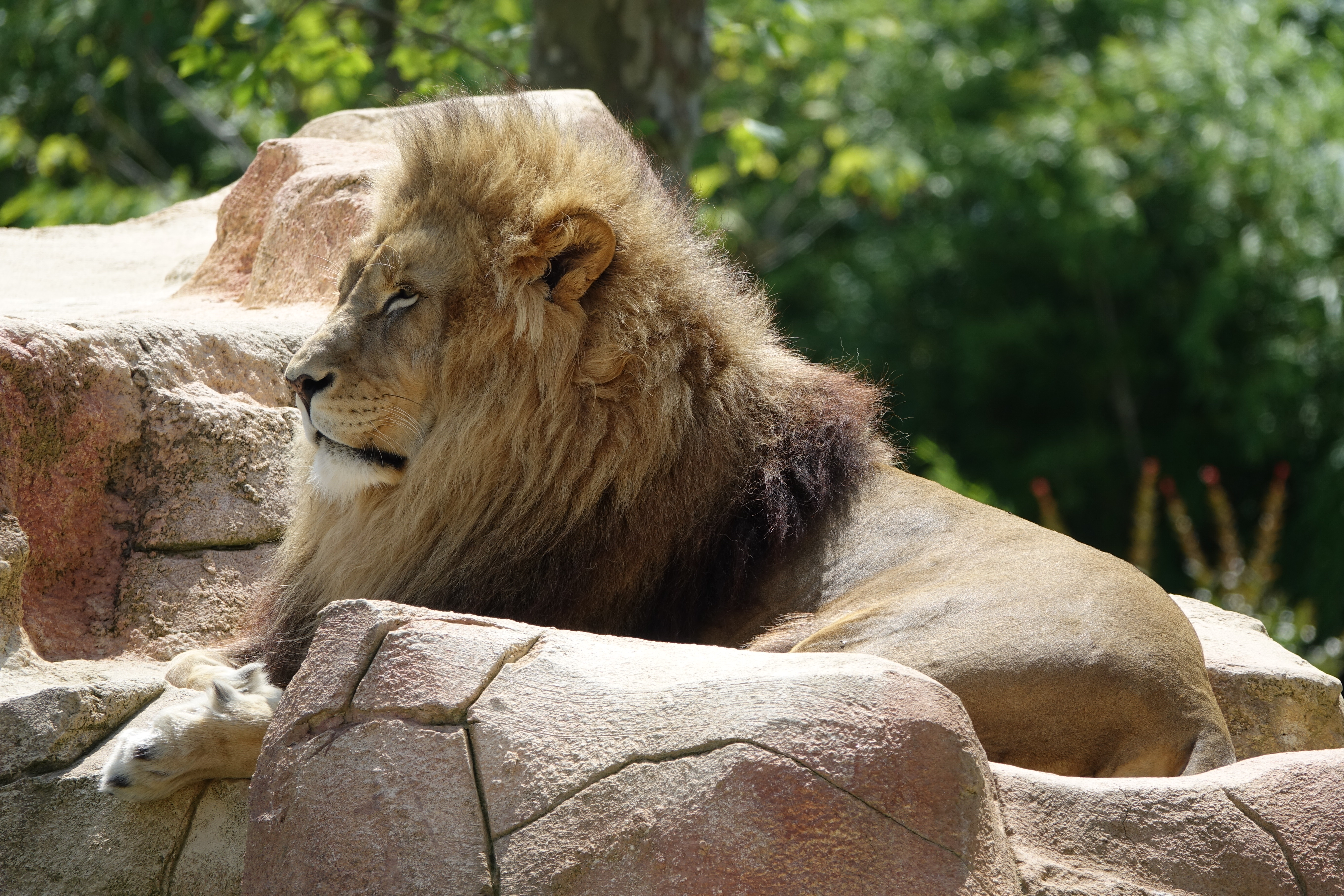 Lion (Panthera leo) at zooParc in Beauval (Saint-Aignan, Loir-et-Cher, France).